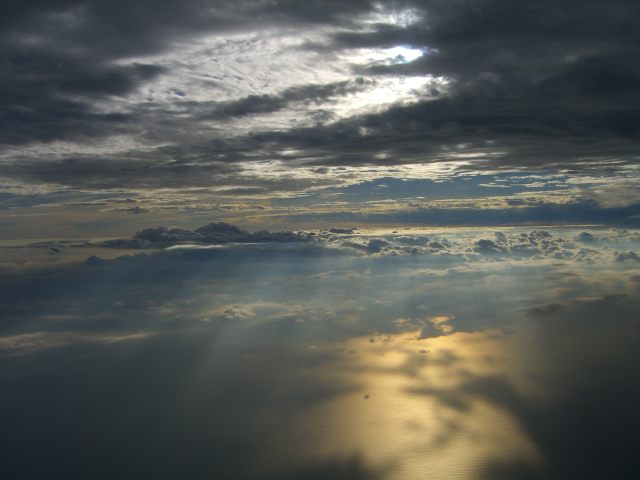 Beautiful view from airplane